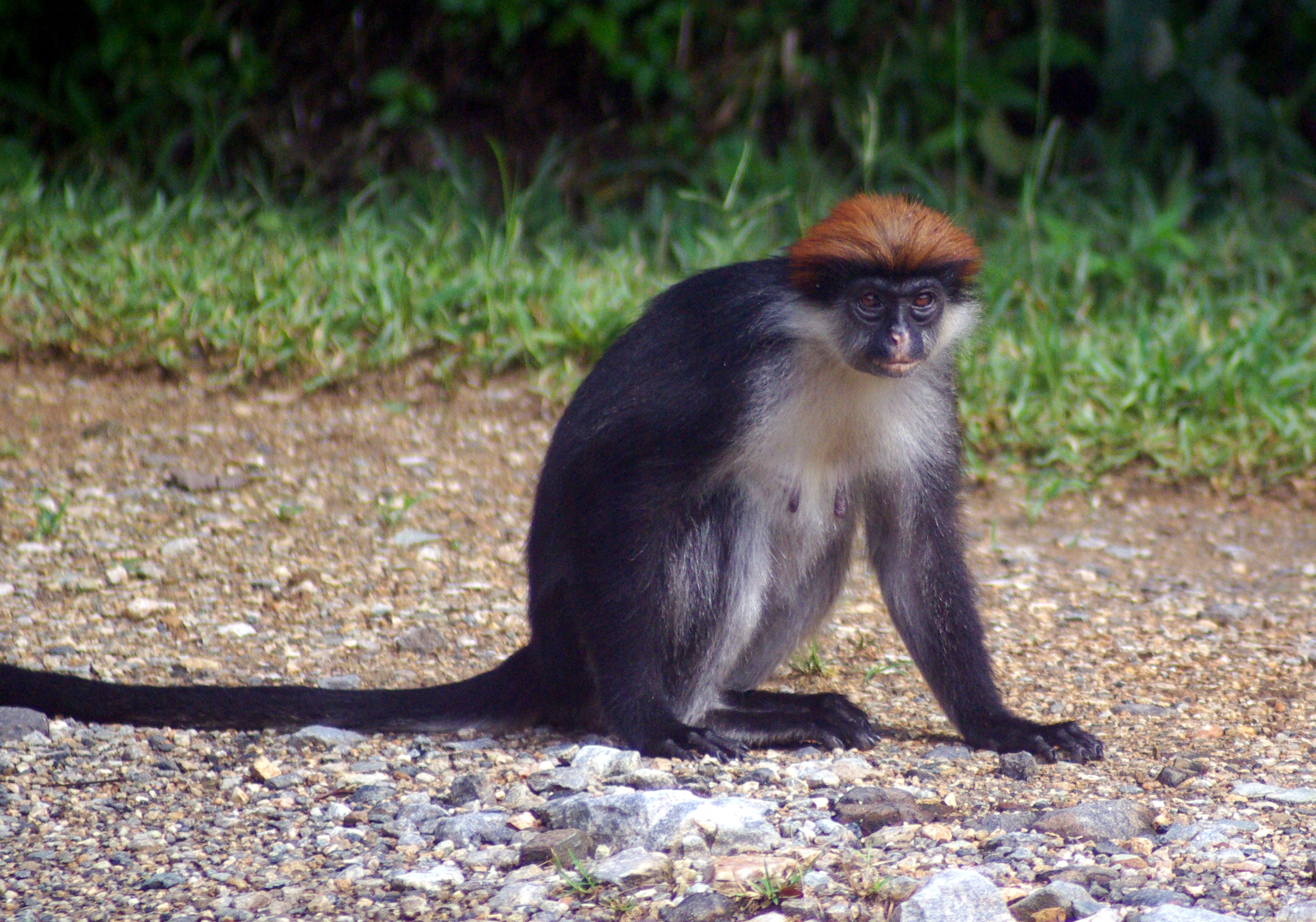 Udzungwa Red Colobus monkey, photographed in Udzungwe NP